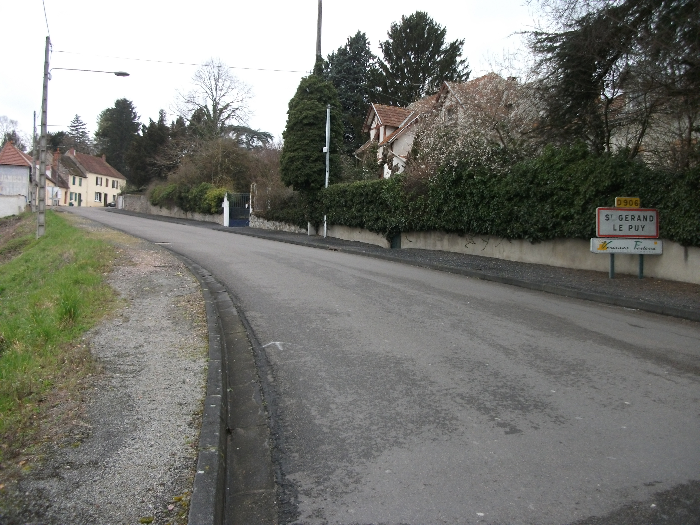 End of former departmental road 906 (officially renamed D 906E part 2) in Saint-Gérand-le-Puy, Allier, Auvergne-Rhône-Alpes, France [10248]